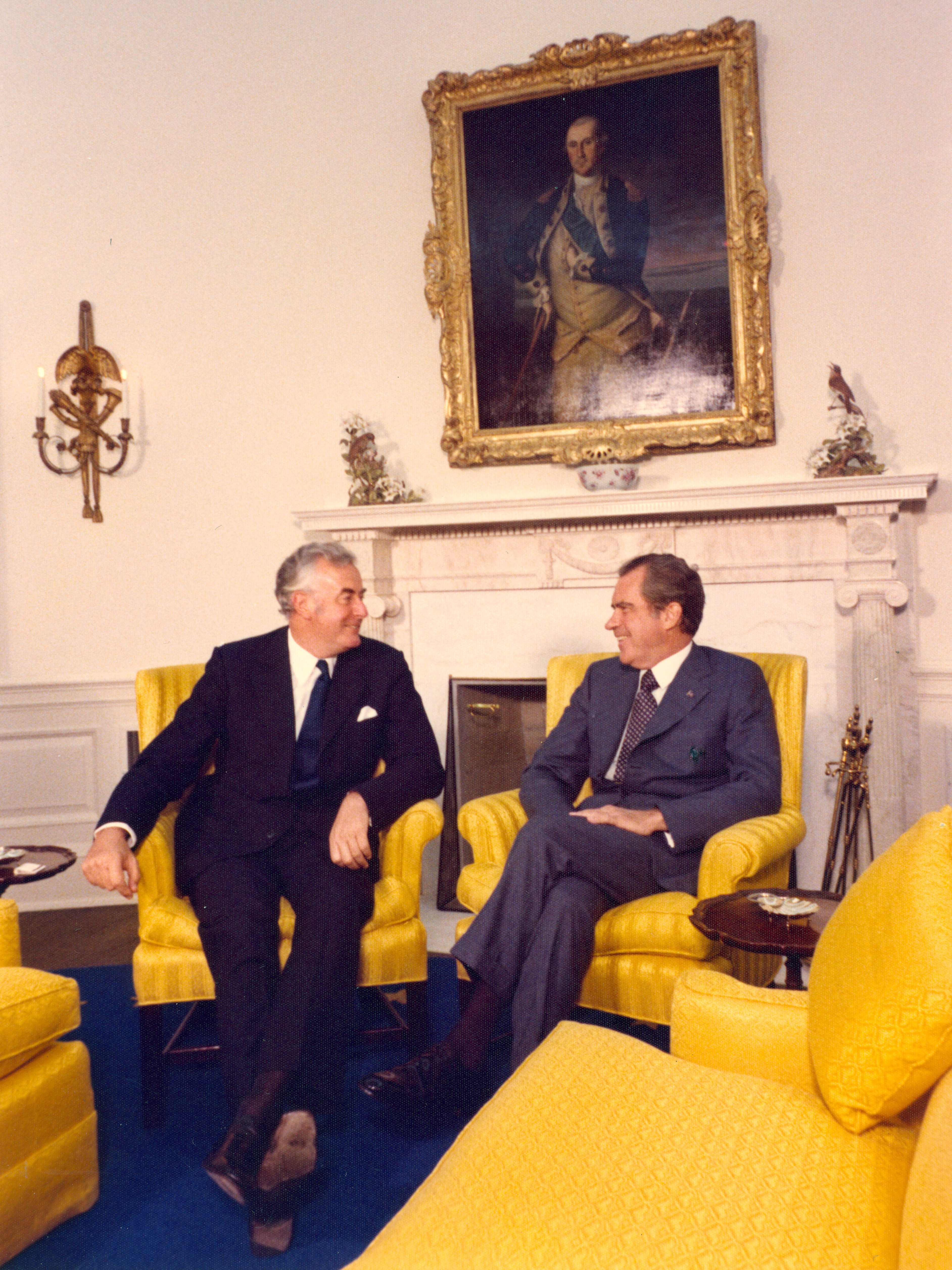 See below